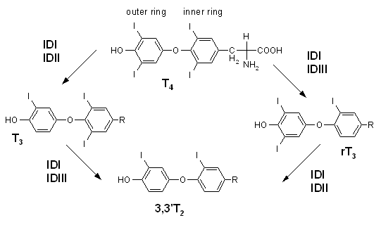 This is an image consisting of diagrams of a specific chemical reaction involving 'iodothyrinone deiodinase'. There are four versions of the same structure with various iodine atoms being added and removed. I created it, using MDL ISIS/Draw 2.5.